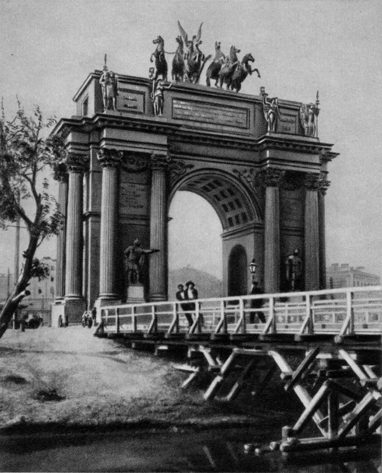 Narva Triumphal Gate in 1910s